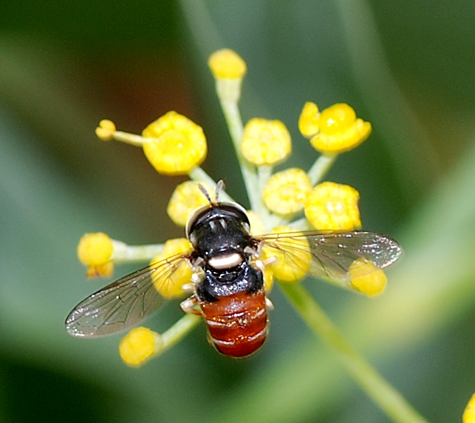 Hoverfly of genus Paragus